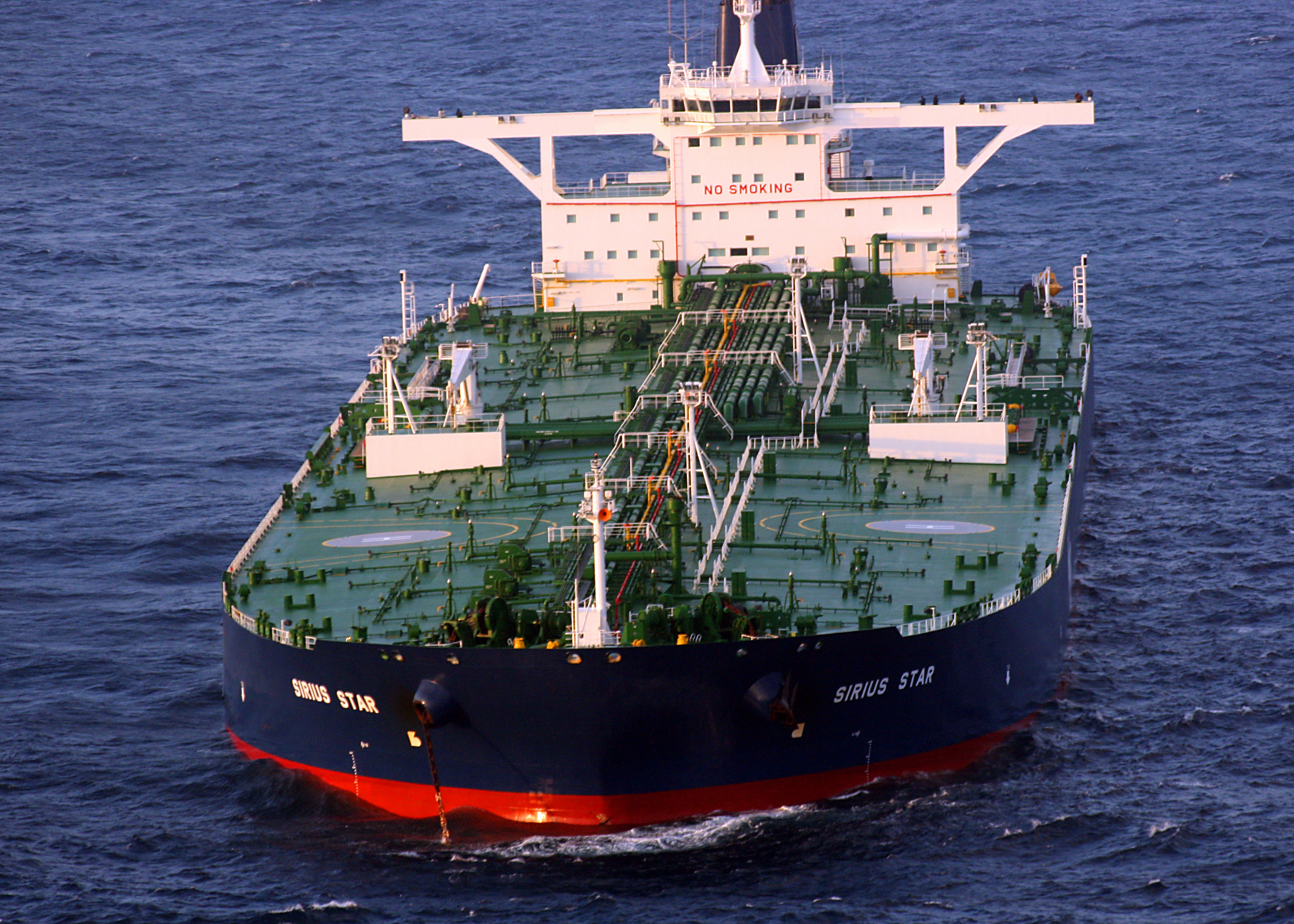 The Liberian-flagged oil tanker MV Sirius Star is at anchor Wednesday, Nov. 19, 2008 off the coast of Somalia. The Saudi-owned very large crude carrier was hijacked by Somali pirates Nov. 15 about 450 nautical miles off the coast of Kenya and forced to proceed to anchorage near Harardhere, Somalia. Indian Ocean. 081119-N-0075S-002